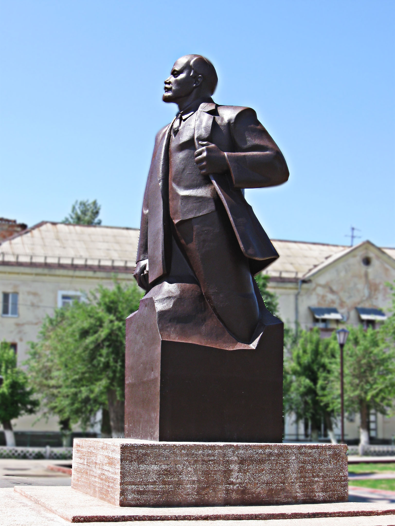 Памятник Ленину (Ахтубинск)